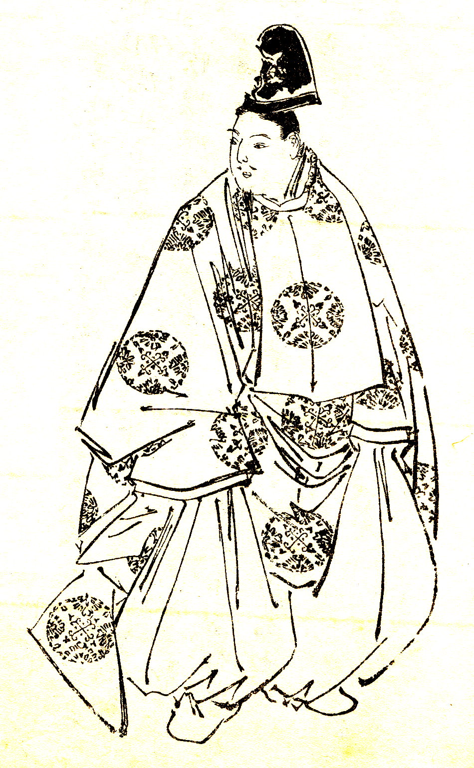 Tokudaiji Sanesada（徳大寺実定）was a Japanese waka poet and court noble in the late Heian and early Kamakura periods.This picture was drawn by Kikuchi Yosai（菊池容斎） who was a painter in Japan.